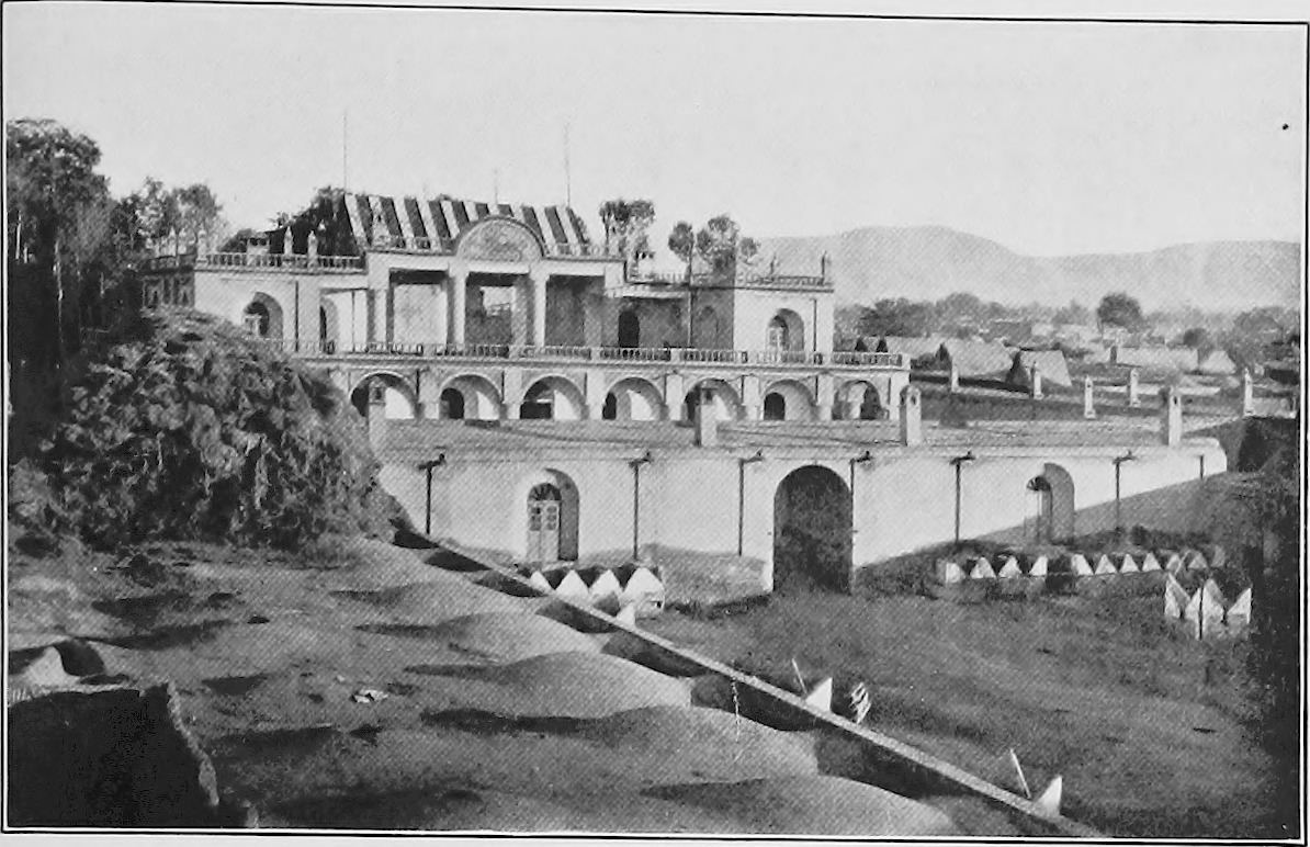 Identifier: cu31924028627036 Title: Persia past and present; a book of travel and research, with more than two hundred illustrations and a map Year: 1906 (1900s) Authors: Jackson, A. V. Williams (Abraham Valentine Williams), 1862-1937 Subjects: Zoroastrianism Publisher: New York, The Macmillan Company London, Macmillan & Co., ltd. Text Appearing Before Image: did not know at the time that the distant hills that I sawrising back of Kazvin were once the stronghold of the Sheikhal-Jahal, Old Man of the Mountains, the head of the AssassinBand in the twelfth century, for I am sure I should have notedthe outline of these hills more closely than I did and shouldhave sought for local legends regarding the picturesque thoughvillanous outlaws whose name, hashshdshln, hashish-eaters, cor-rupted by Europeans into assassin, has become synonymouswith murderer. The next stages of the journey were devoted to sleeping asbest I could in the uncomfortable conveyance, but I awoke intime to enjoy the grand mountain scenery of the Kharzan Pass.This lofty roadway crosses the Alborz range at a height ofseven thousand feet, or more, above the Caspian, and in winterit is one of the bleakest and most desolate places in all Persia, apathway of death where many a beast of burden falls by theway. The descent to the village of Peichanar was slow and1 See Yakut, p. 443. Text Appearing After Image: Thf. Mahmax-Khanah at Kazyix [The Mehmān-Khāneh at Kazvin (Qazvin)]